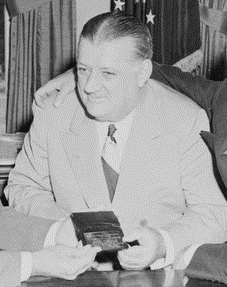 Photograph of Bert Bell, football exec, cropped from File:Photograph of President Truman at his desk in the Oval Office, receiving his annual pass to National Football League... - NARA - 200160 (2).tif.jpg . Harry Truman was on his right. Photo by Presidential photog